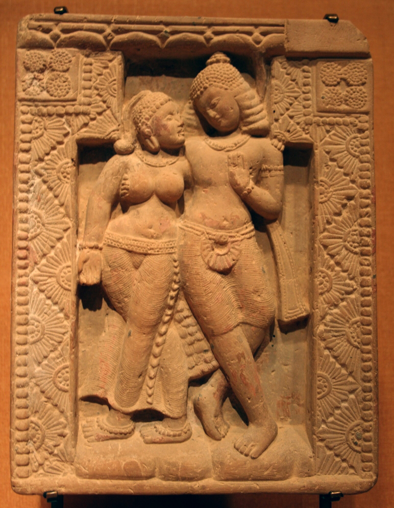 Mithuna India, Gupta period, 5th century A.D. Terra cotta Honolulu Museum of Art Purchase, 2003 (accession 12,476.1) Wikipedia Loves Art at the Honolulu Academy of Arts This photo of item # 12476.1 at the Honolulu Academy of Arts was contributed under the team name "Department_of_Trife" as part of the Wikipedia Loves Art project in February 2009. Honolulu Academy of Arts The original photograph on Flickr was taken by mandleicious—please add a comment to the original Flickr page whenever a use has been made on Wikipedia or another project. Project galleries on Flickr: this institution, this team